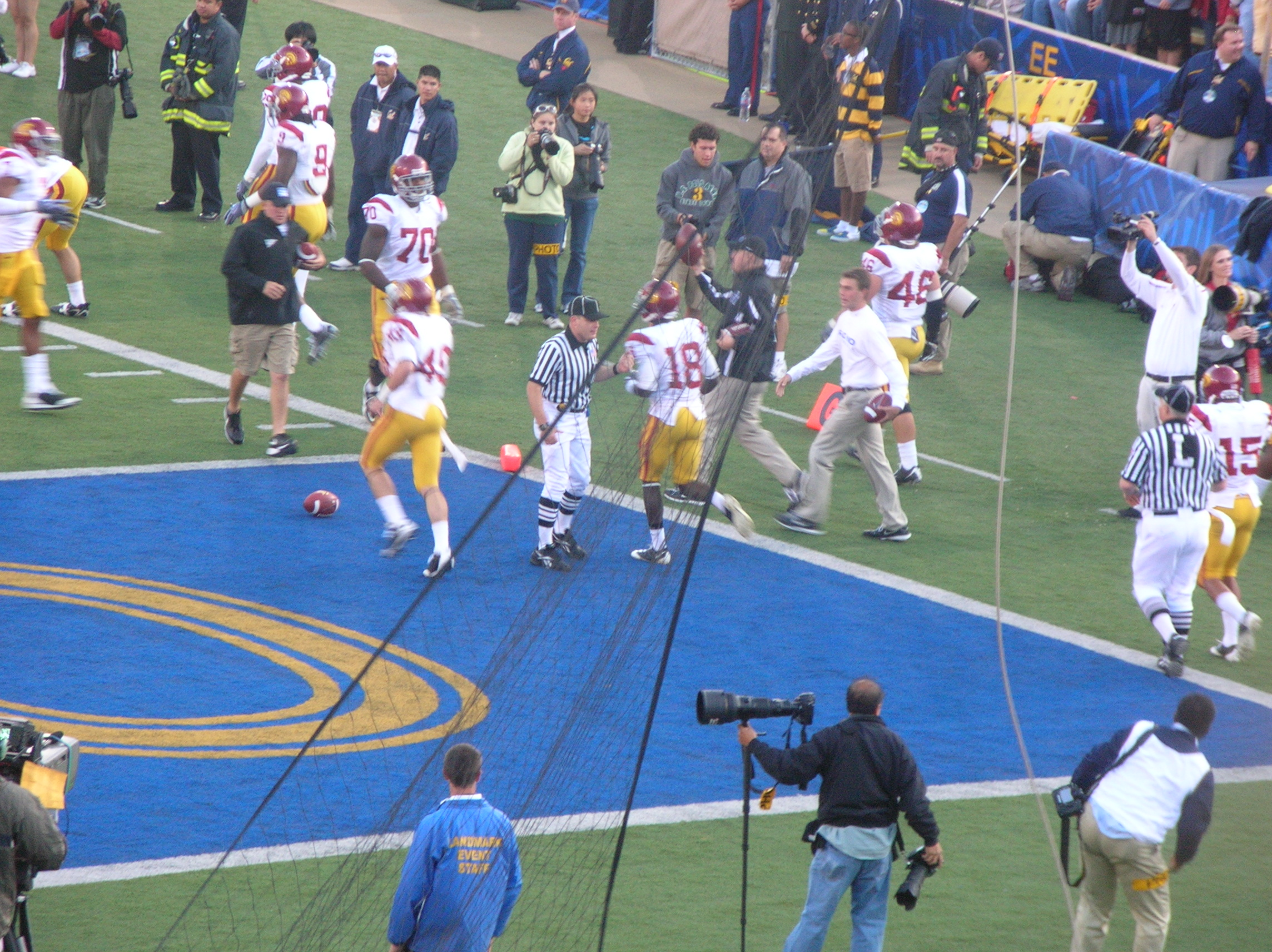 USC Trojans wide receiver Damian Williams (#18) after scoring a touchdown on a punt return during a road game against the California Golden Bears. The Trojans won 30-3.